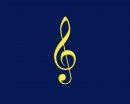 A logo of the Festival of Slovak popular music "Zlatý kľúč". Srpski (latinica): Logo Festivala slovačke popularne muzike "Zlatni ključ".